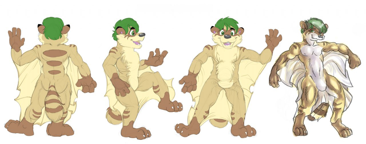 Furry character sheet, a flying squirrel/raccoon/meerkat hybrid. The idea was mine. The art was commissioned from Davecko. He transferred the copyright to me, and I choose to upload it and license it.